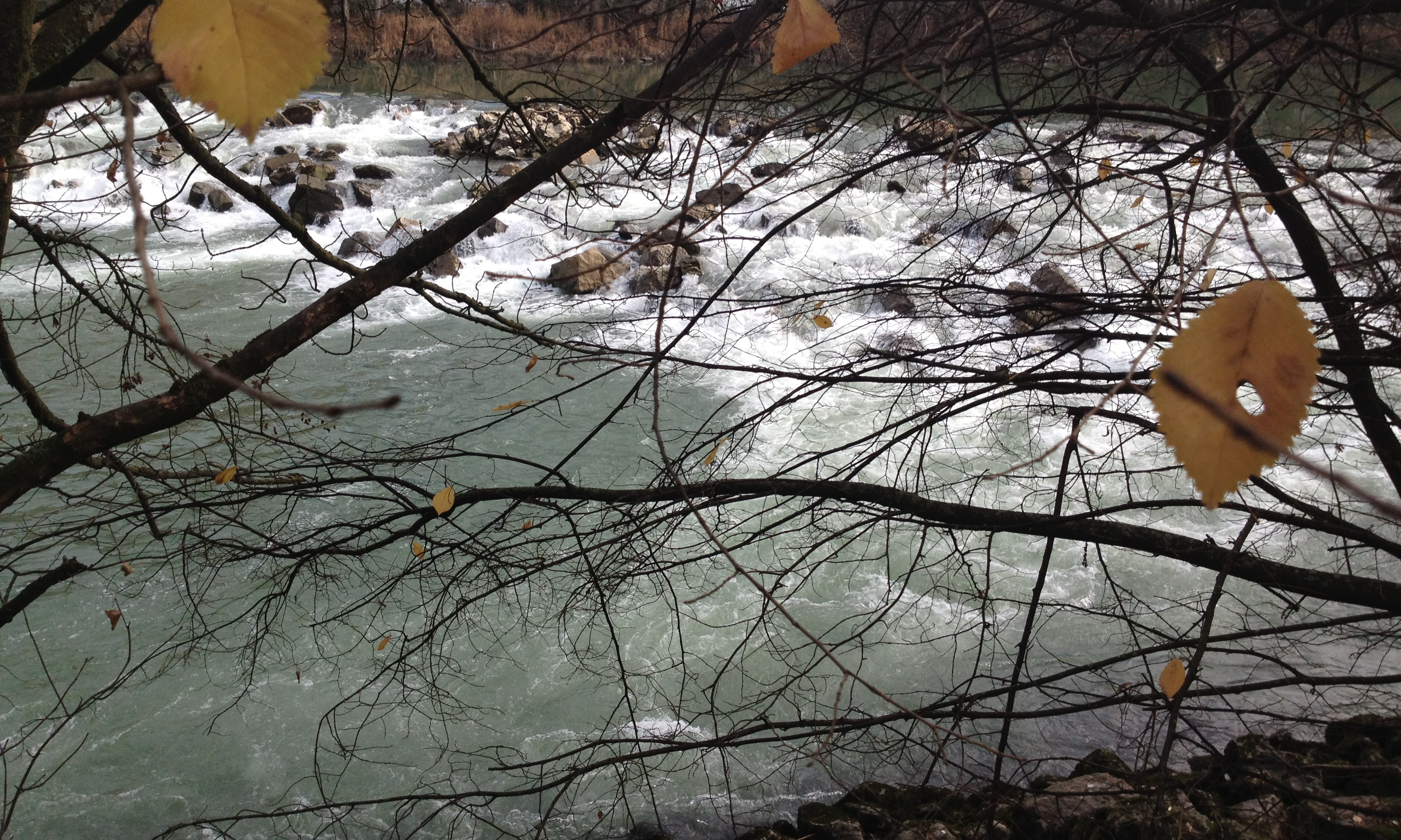 Deciduous trees in late autumn (River Arve in Geneva)